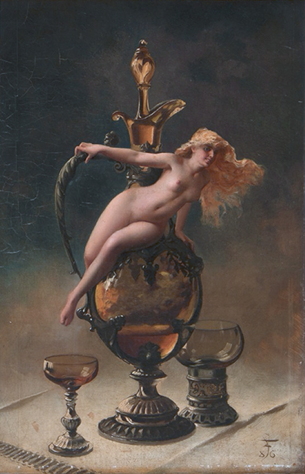 Le vin de Tokai oil on canvas 47,5 x 31 cm signed b.r.: 8LF6